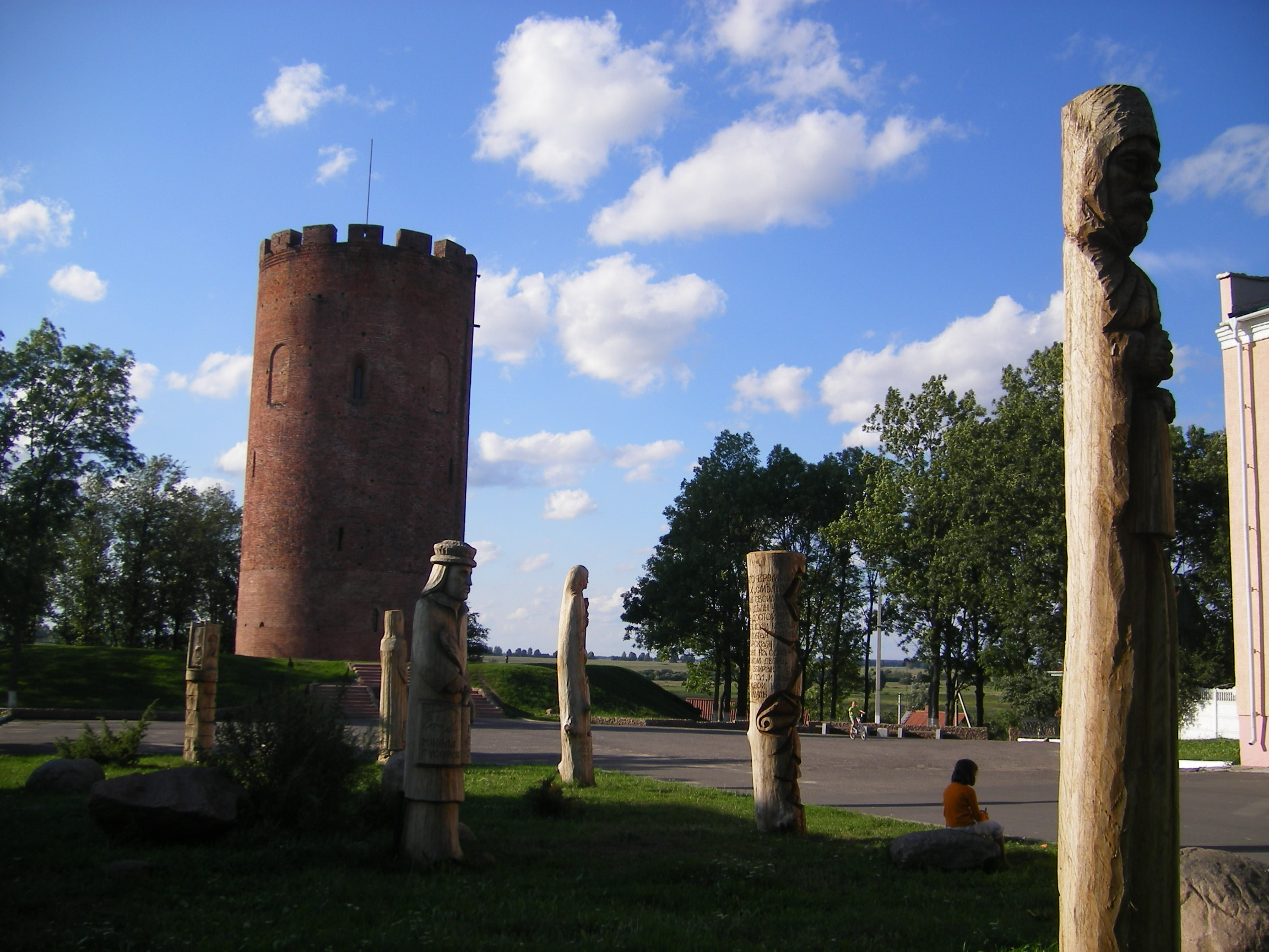 Kamyanets, White tower, Белая вежа